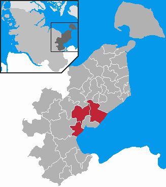 This map shows the area of the former Amt (county) Neustadt-Land in the Kreis (district) Ostholstein, Schleswig-Holstein, Germany.